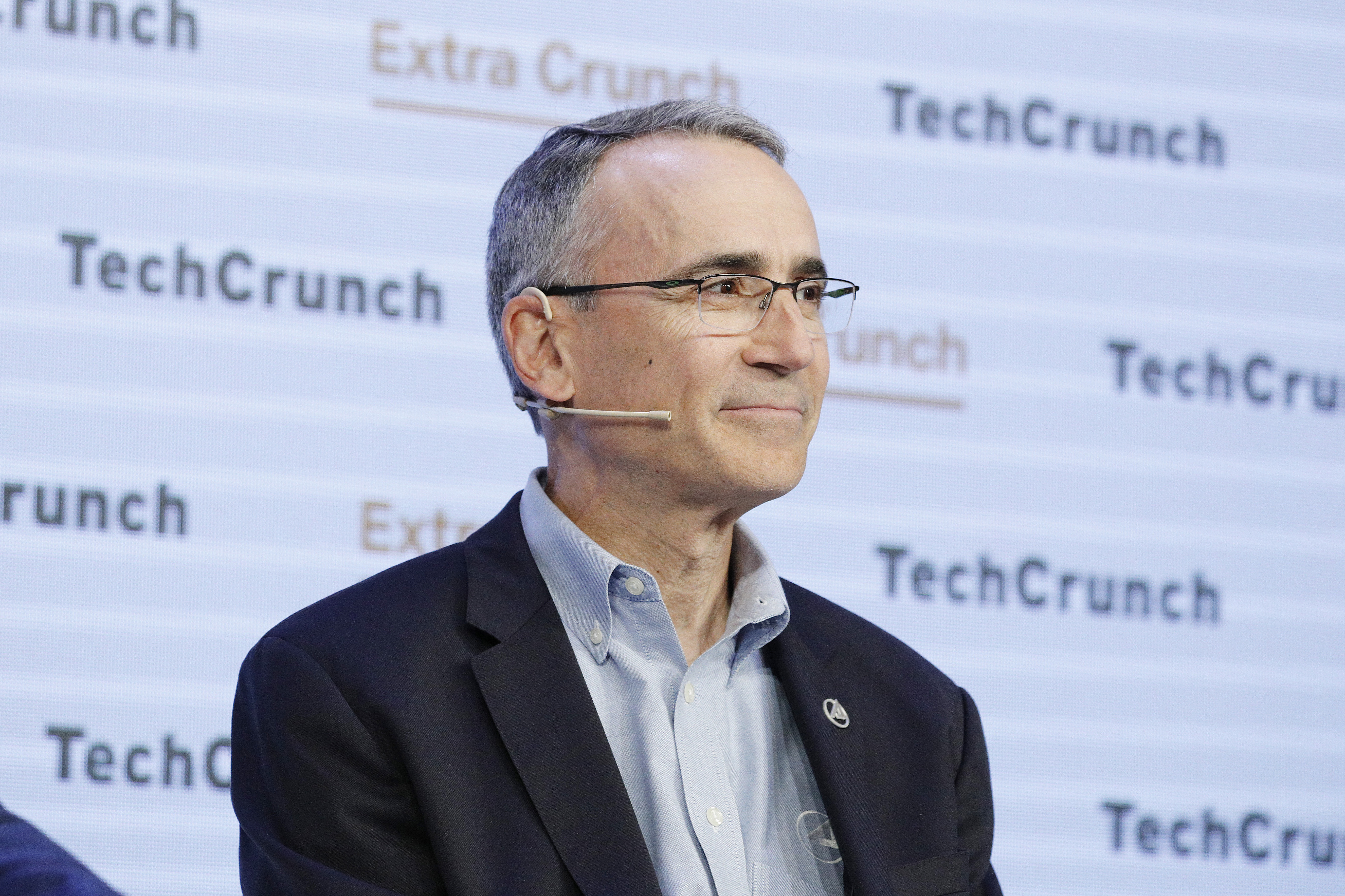 SAN FRANCISCO, CALIFORNIA - OCTOBER 02: The Aerospace Corporation President and CEO Steve Isakowitz speaks onstage during TechCrunch Disrupt San Francisco 2019 at Moscone Convention Center on October 02, 2019 in San Francisco, California. (Photo by Kimberly White/Getty Images for TechCrunch)